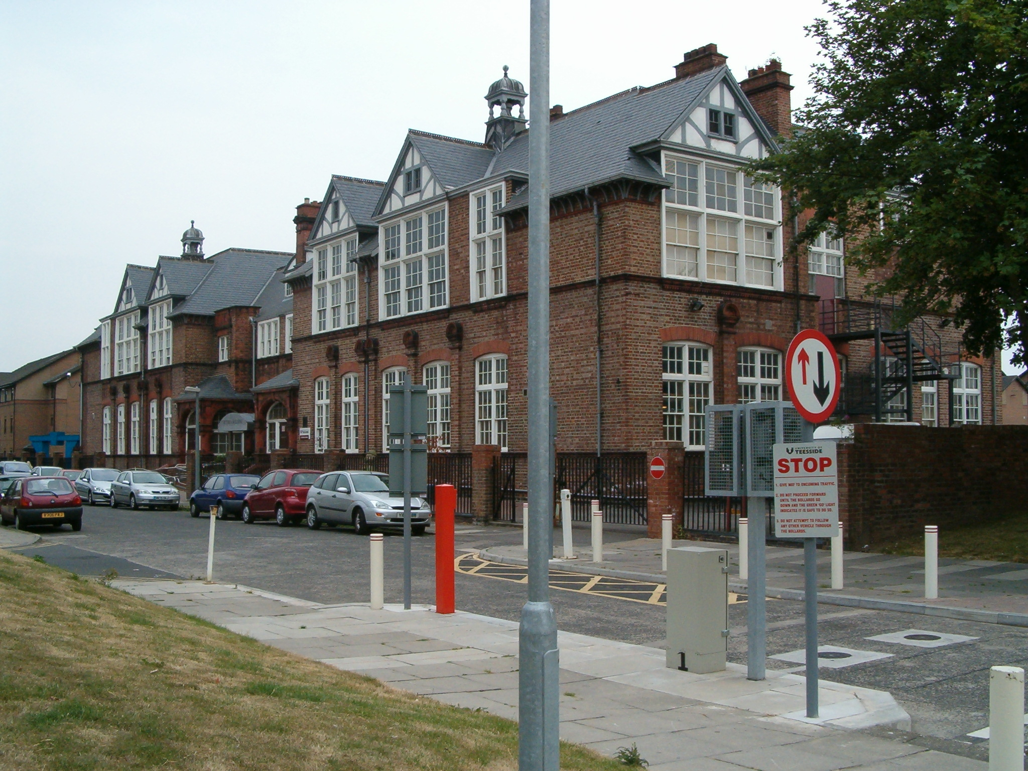 The former Victoria Road School, now Victoria Building of the University of Teesside, in Middlesbrough, England. This building functioned as the town's Cleveland Gallery between 1984 and 1999.